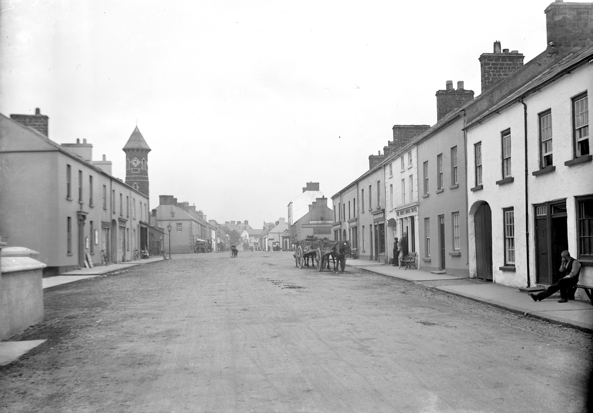 A lovely quiet street that has known many changes! I believe we achieved a new record today - for the first time we had three street views - thanks for the effort. By the way, [/photos/91549360@N03/ OwenMacC] thinks that [/photos/8468254@N02/ derangedlemur]'s one is the best representation of the photo!! [/photos/129555378@N07/ sharon.corbet] Tells us that The War Memorial visible today was added in 1921, so it's before that, I have updated the date range to reflect this. No mention of Whiskey - I will have to remedy that myself with the following short piece from official website 1918-20 A new chapter : Bushmills Whiskey made an impression on some of the most prolific authors of the time. It gets a mention in Ulysses and, not surprisingly, in On Booze. I know that "On Booze" is by F. Scott Fitzgerald, I am not sure about the author of other buke!! Photographer: Unknown Collection: Eason Photographic Collection Date: 1900 - 1921 NLI Ref: EAS_0378 You can also view this image, and many thousands of others, on the NLI’s catalogue at